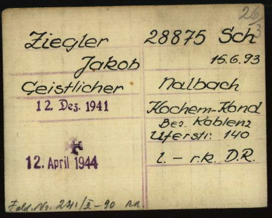 Registration card of Jakob Anton Ziegler as a prisoner at Dachau Nazi Concentration Camp. The stamped cross signals the day of his death. (Date differs exactly 1 month from that on his death certificate.)